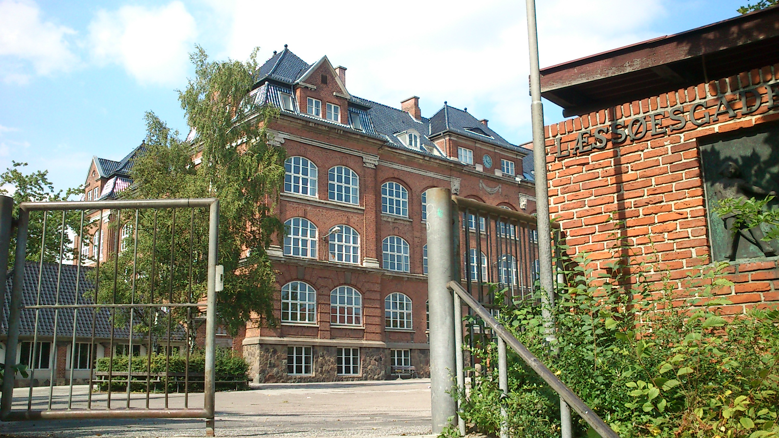 Læssøesgades Skole